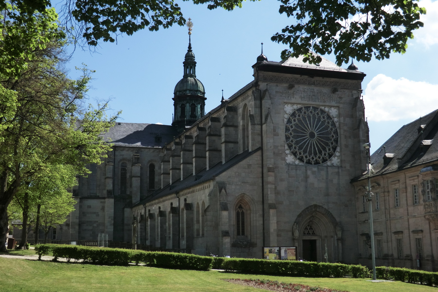 Ebrach Abbey Native nameKloster EbrachParent institutionMorimond AbbeyLocationEbrach, Upper Franconia, GermanyCoordinates49° 50′ 48.84″ N, 10° 29′ 39.12″ E Established1127Authority control : Q315482 VIAF: 239627445 GND: 1701198-X NKC: mzk2007378668 institution QS:P195,Q315482